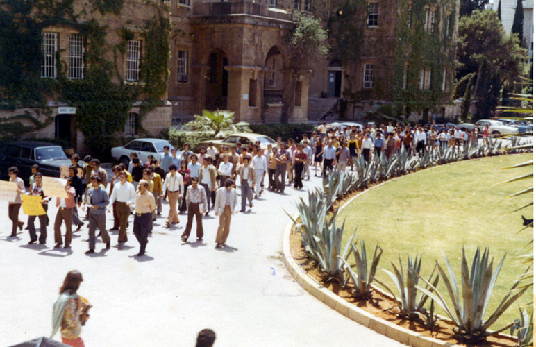 The Green Oval of AUB Photo taken in 1973 with students parading. I added the shadow effect to the frame by using powerpoint 2007